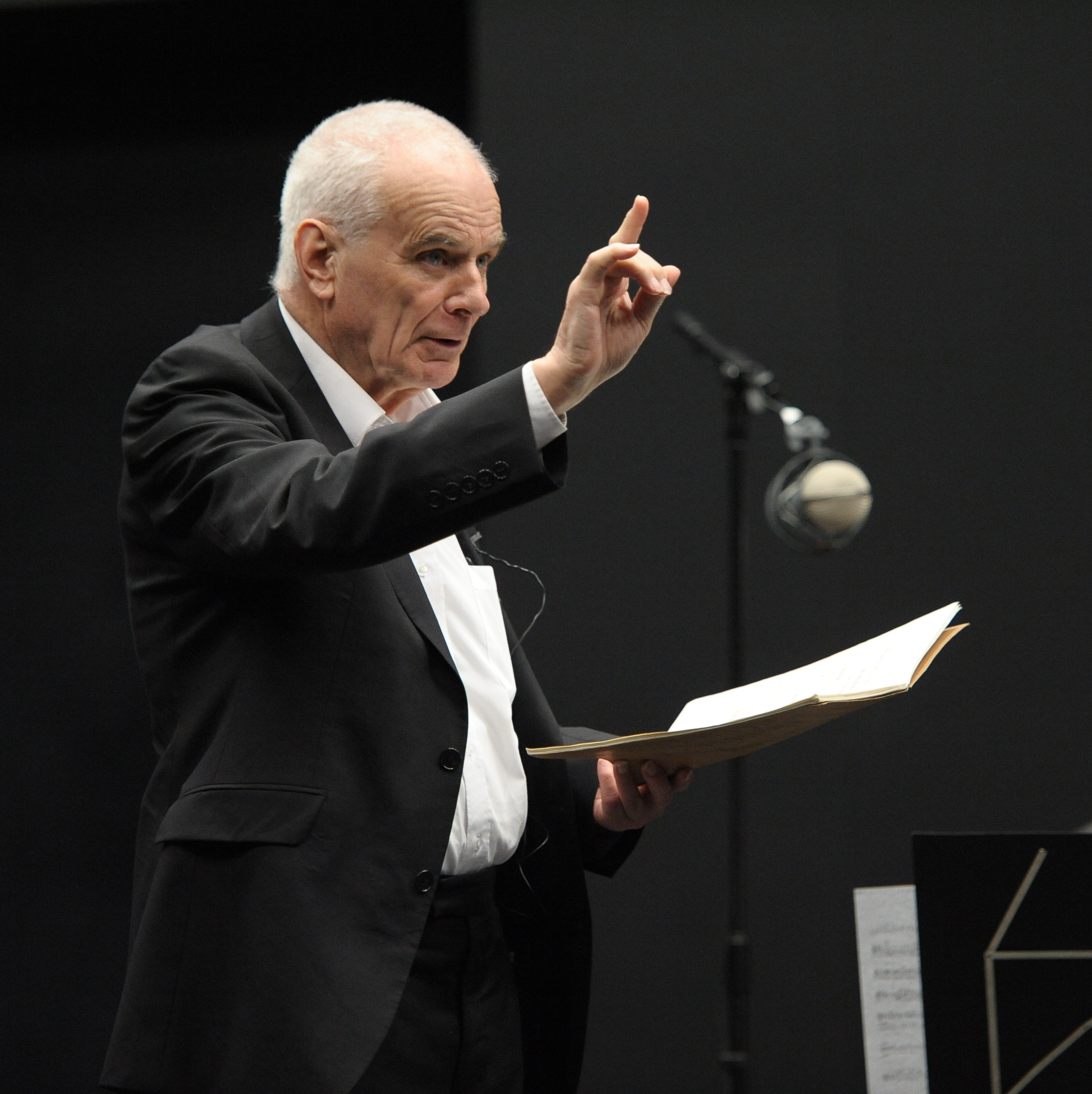 (Image shows Sir Peter Maxwell Davies) The UK’s highest-ranking composer has joined one of the country’s leading new music ensembles and students at the University of Salford to create a unique interactive online project. Master of the Queen’s Music, Sir Peter Maxwell Davies, oversaw the recording of his piece Eight Songs for a Mad King by the University’s official MediaCityUK Ensemble – Manchester-based contemporary music group Psappha – in the Digital Performance Lab at the University’s MediaCityUK building. This definitive recording has now been combined with gaming technology to produce a web-based virtual environment which forms part of The Space, an experimental digital arts media service supported by the BBC and funded by Arts Council England.